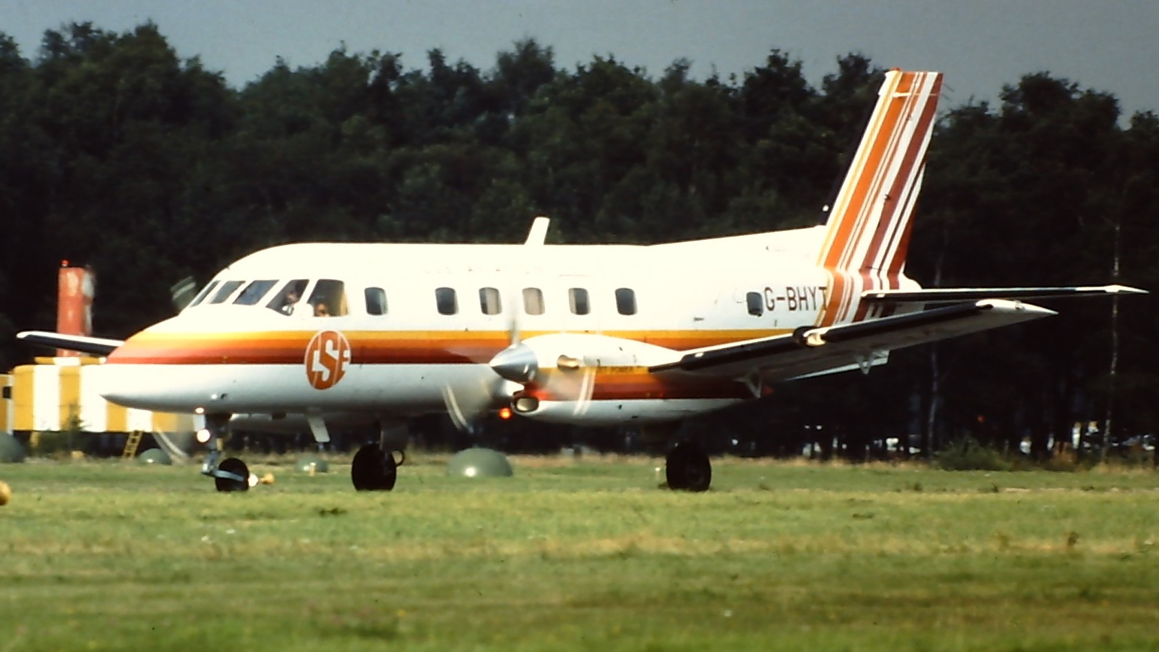 1980-built Embraer EMB-110P2 Bandierante registered G-BHYT of CSE Aviation Limited on display at 1980 Farnborough Air Show (scan from slide)